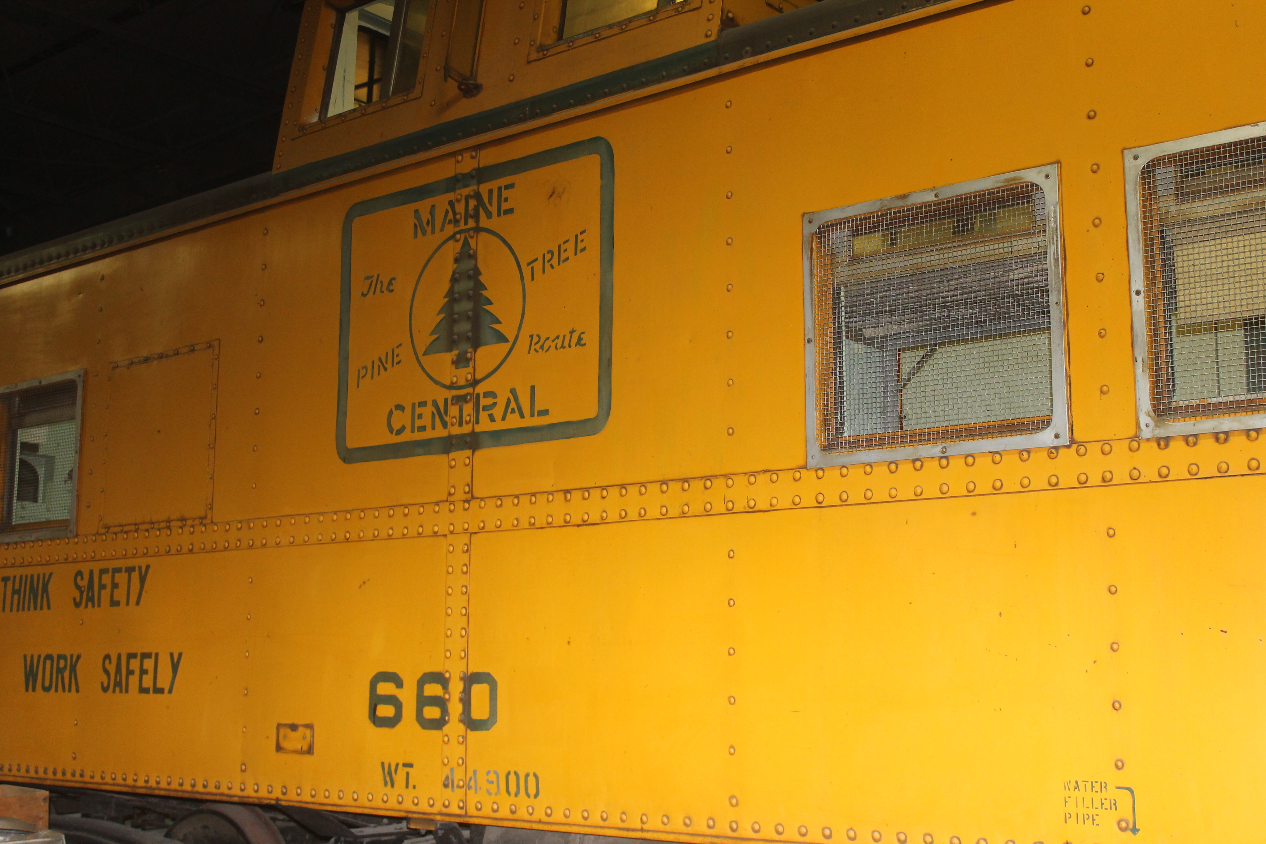 I took photo of Maine Central Railroad car at the Cole Land Transportation Museum in Bangor, ME.